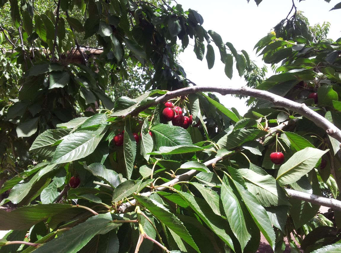 עץ דובדבנים בעין זיוון ברמת הגולן